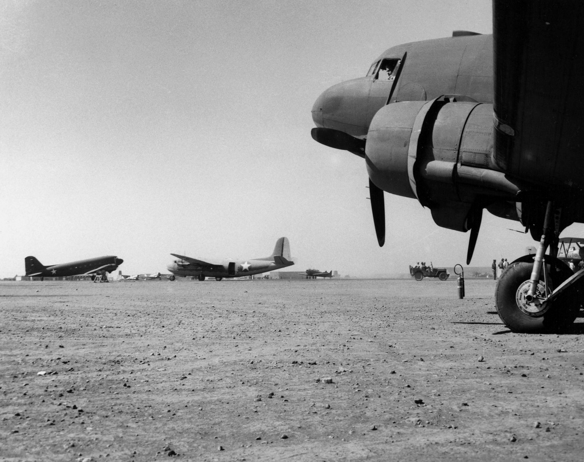 View of the flight line at Camp Kearney, located on the site of the future Naval Air Station Miramar, California (USA), in 1942. Visible are two Douglas R4D Skytrain, a rare Douglas R3D (center), two North American SNJ trainers in the background (left), and two Douglas SBD Dauntless dive bombers (?).